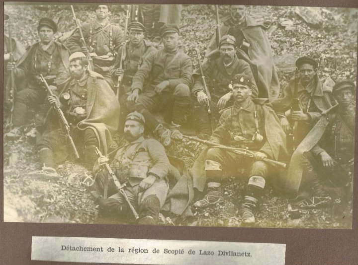 IMRO cheta of bulgarian revolutionary Lazar Velkov Divlianets